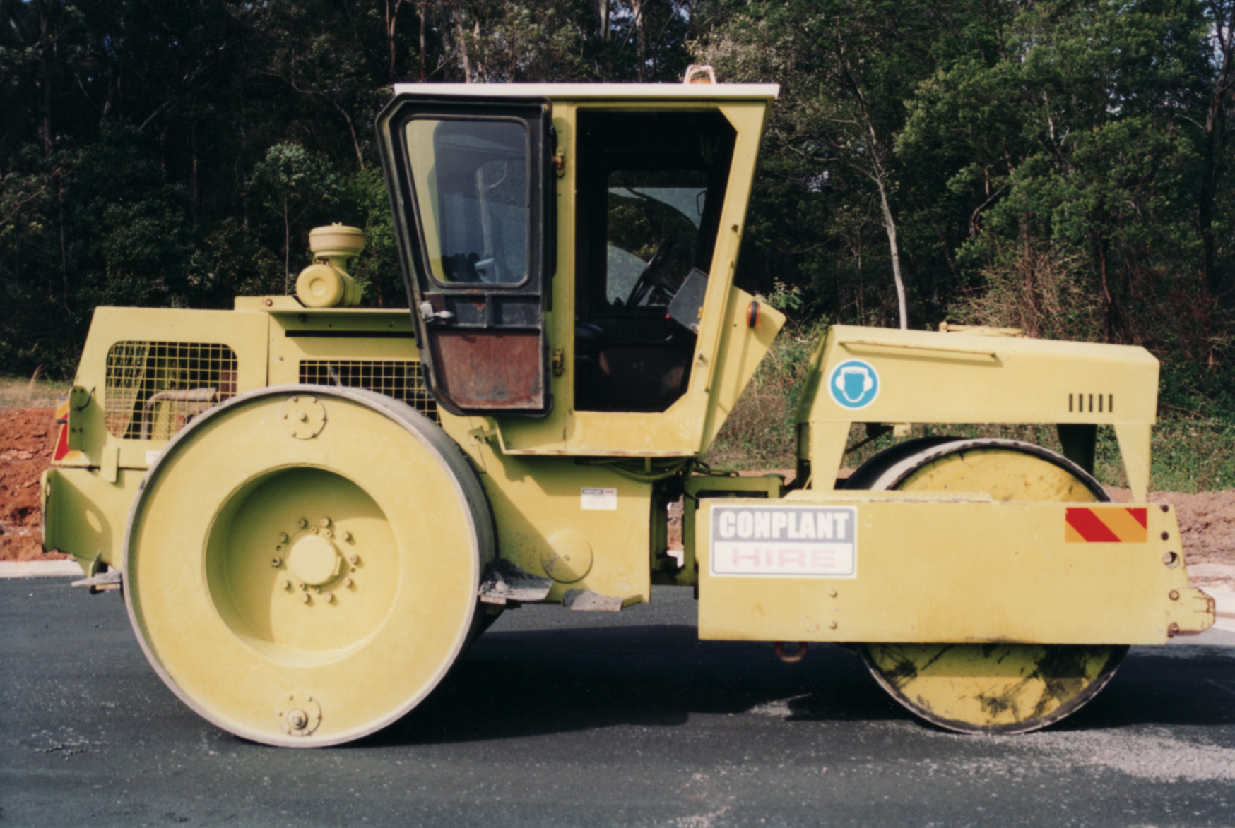 A three point roller